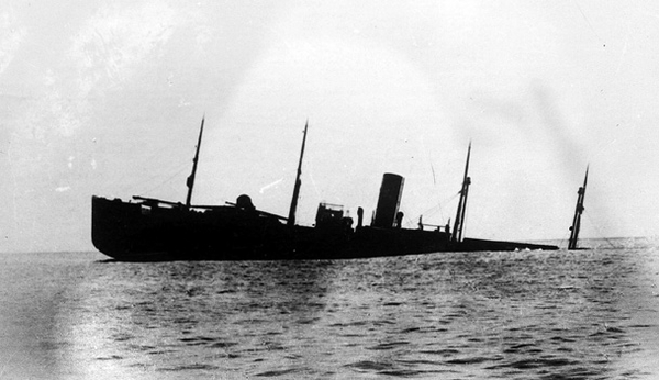 A/S Hektor's whaling factory Benguela, ex. Oakmore (1897), sinking on 30 June 1917 after an encounter with a German submarine